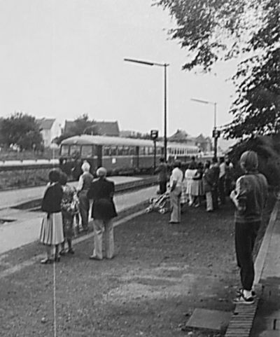 Last train in Ratheim